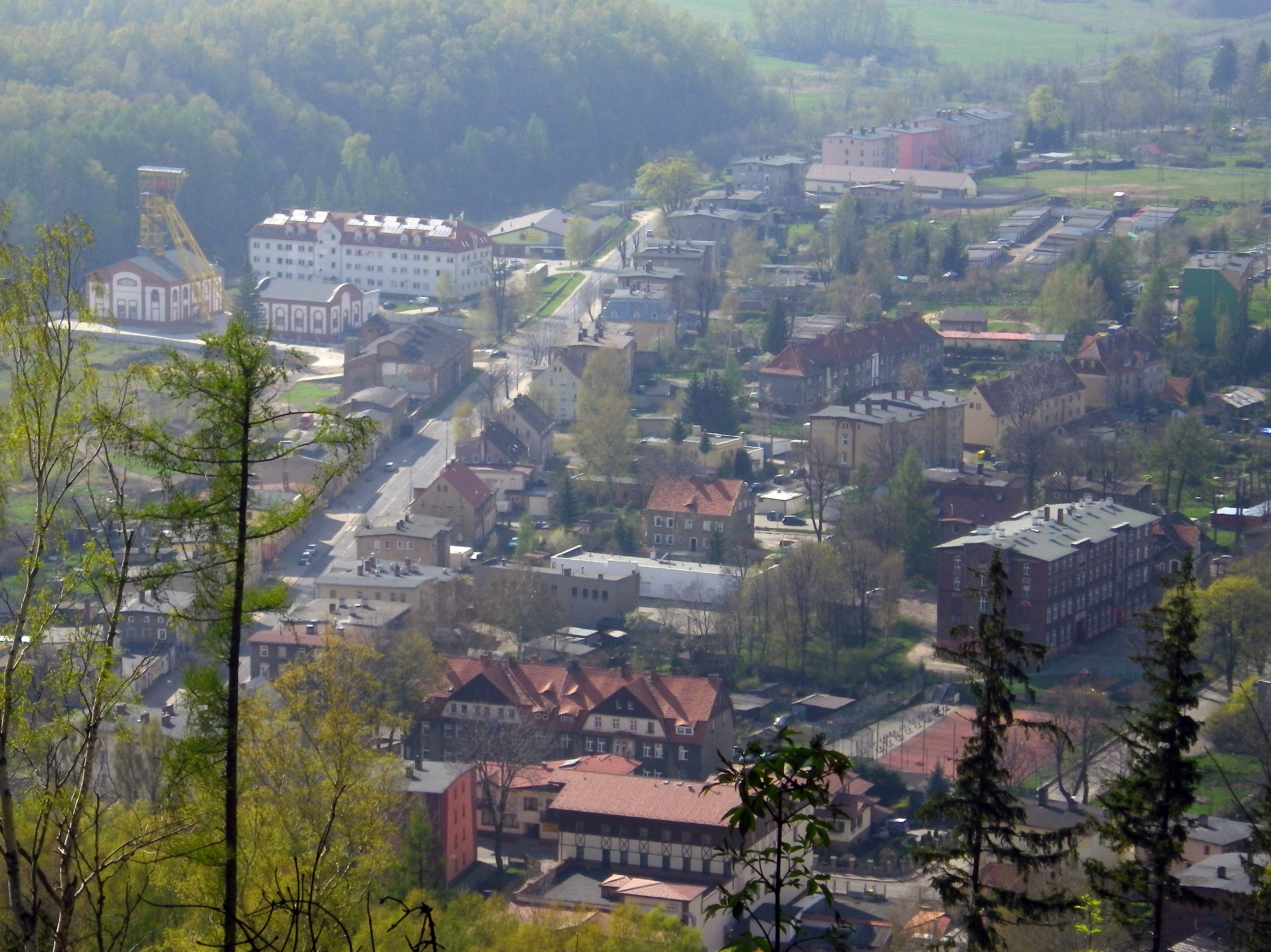 Gorce (part of Boguszów-Gorce in Poland, Lower Silesia) seen from the slopes of Mniszek. Headframe of Witold shaft seen in the upper left corner